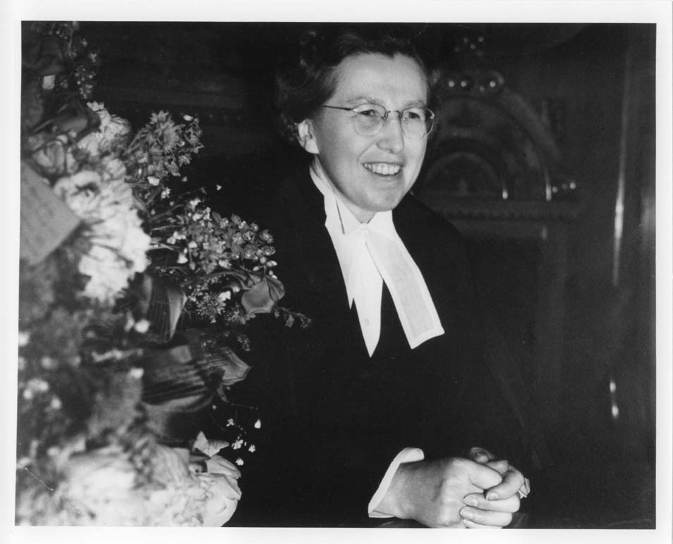 Photograph of Judge Helen Alice Kinnear (1894-1970). Kinnear was the first woman in the British Commonwealth to be created a King's Counsel, the first in the Commonwealth appointed a county court judge, and the first woman in Canada to appear as counsel before the Supreme Court of Canada. Date: [1943?] Photographer: Star Newspaper Service Reference code: P56